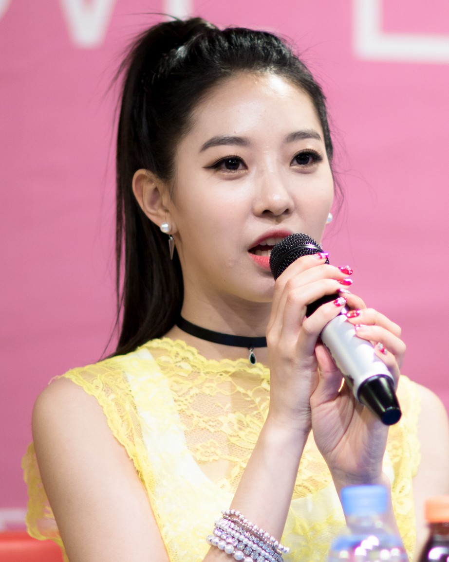 Song Dahye at a fansigning event in Incheon, 24 May 2015